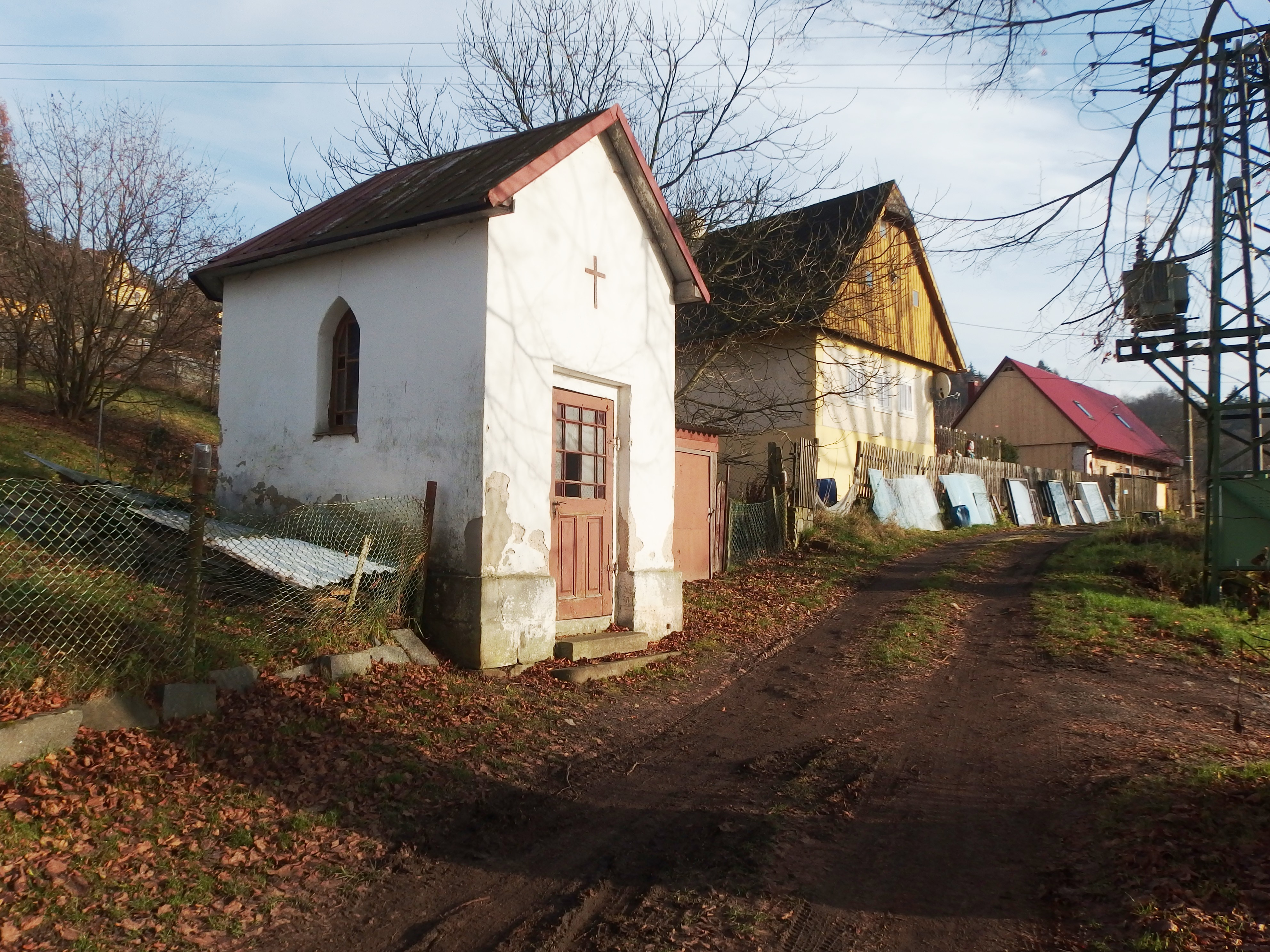 Trutnov, Czech Republic, part Bohuslavice.